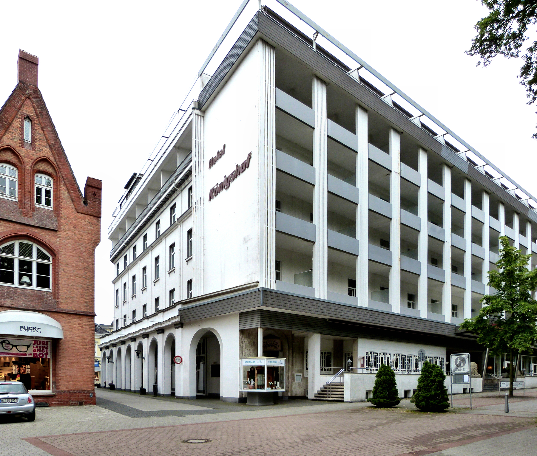 Hotel - a listed façade (north facade with portico)